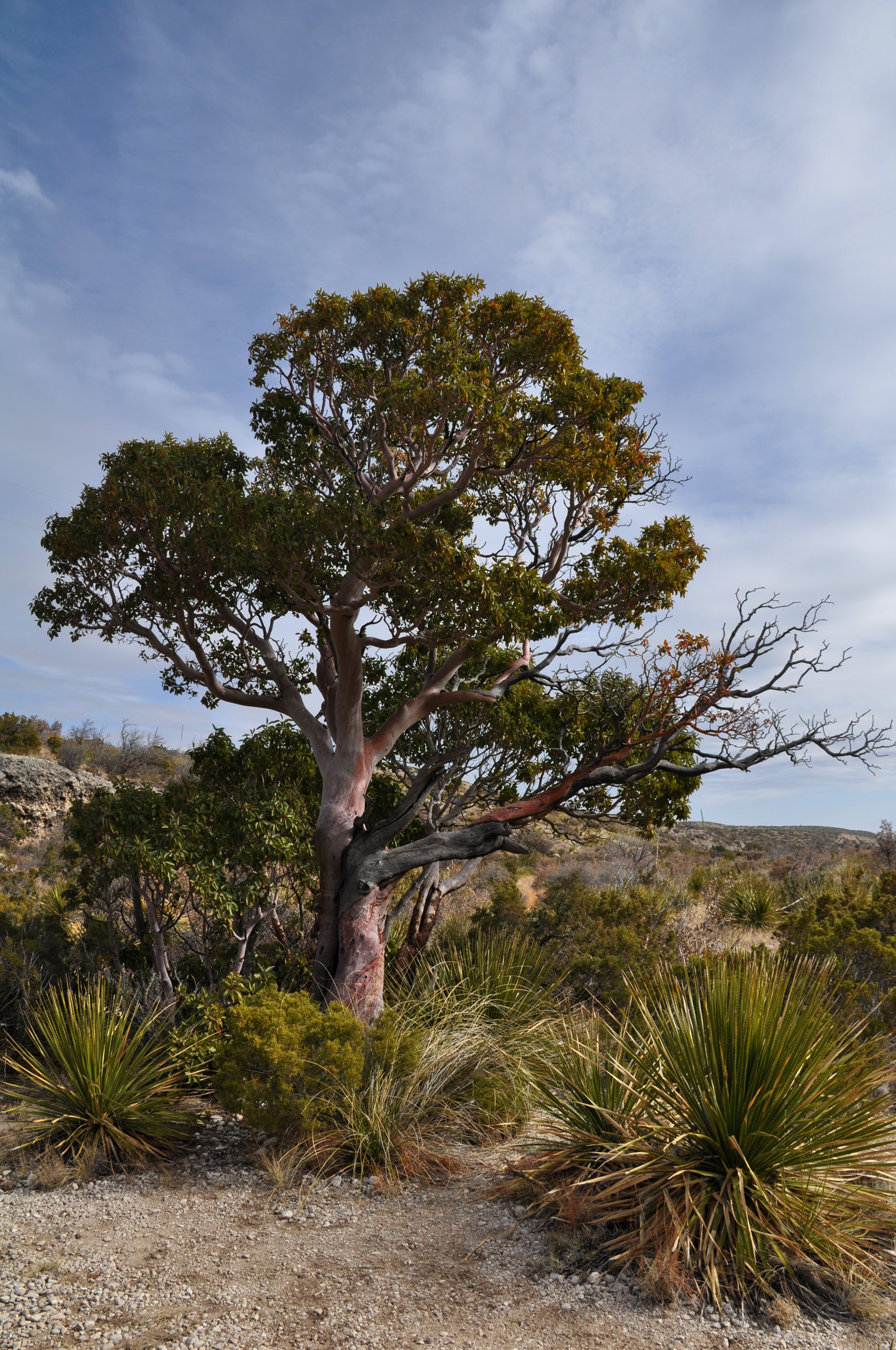 Arbutus xalapensis, McKittrick Canyon, Guadalupe Mountains National Park, West Texas.